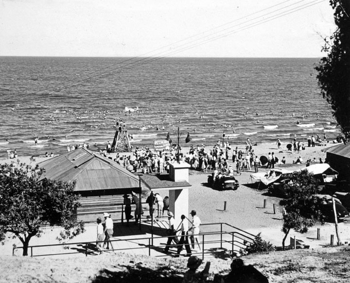 The Pavilion and bathers, Redcliffe.